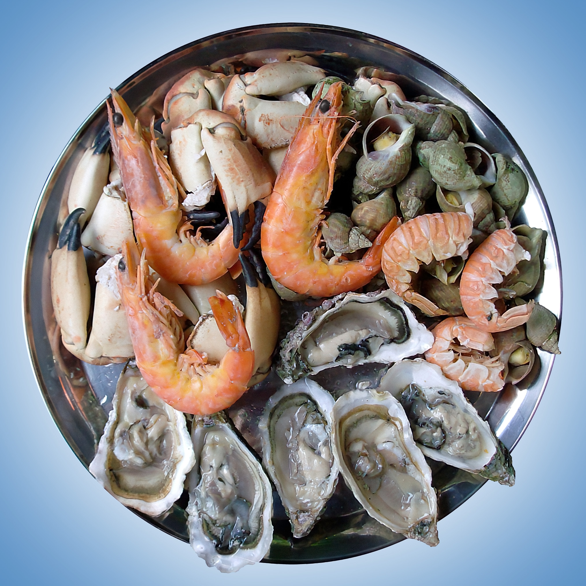 Seafood platter